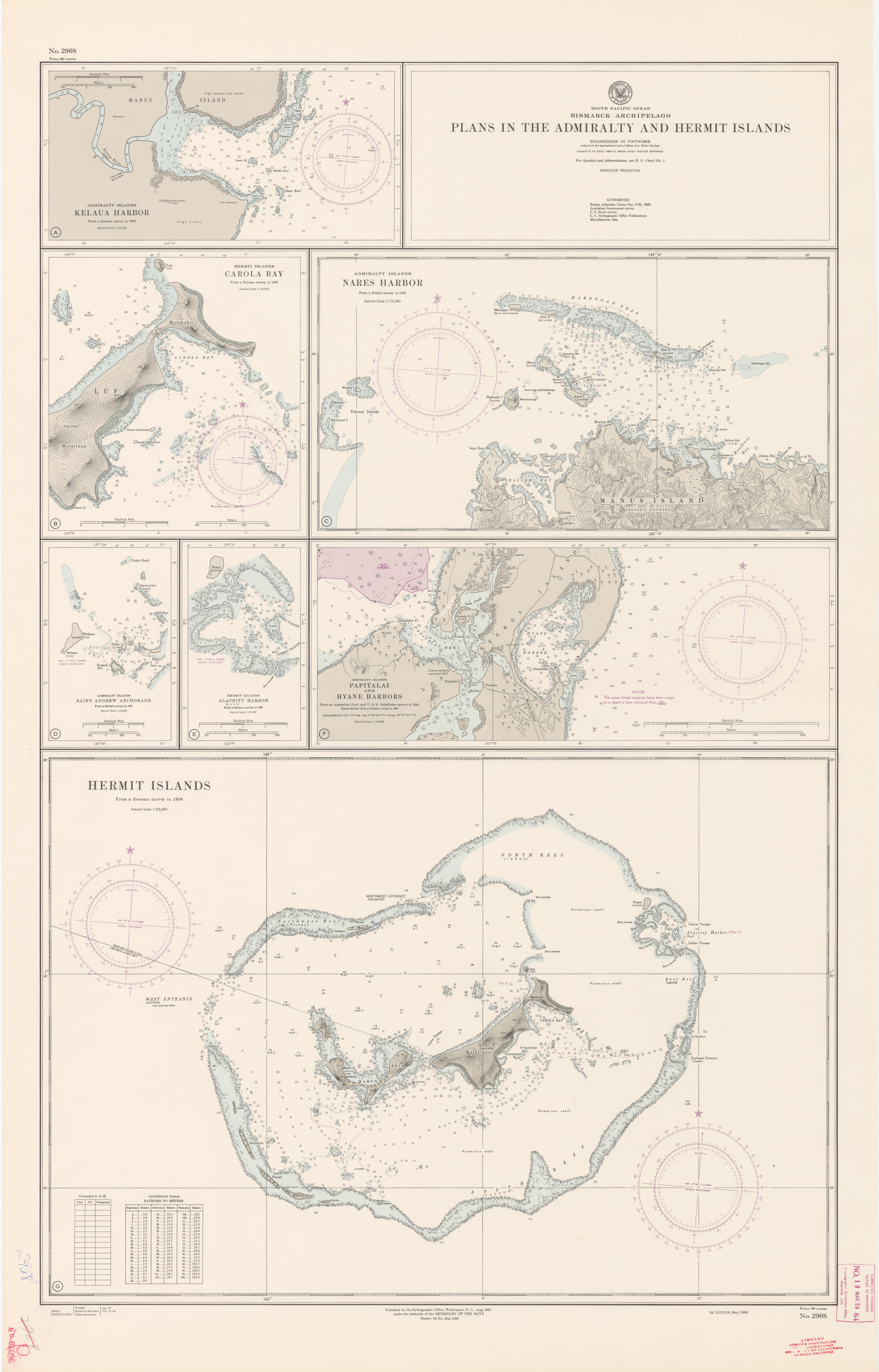 nautical chart of Hermit Islands, Admiralty Archipelago, Papua New Guinea, Pacific Ocean, with map insets: Kelaua Harbor, Carola Bay, Nares Harbor, Saint Andrew Anchorage, Alacrity Harbor, Papitalai and Hyane Harbors (all Manus Island)